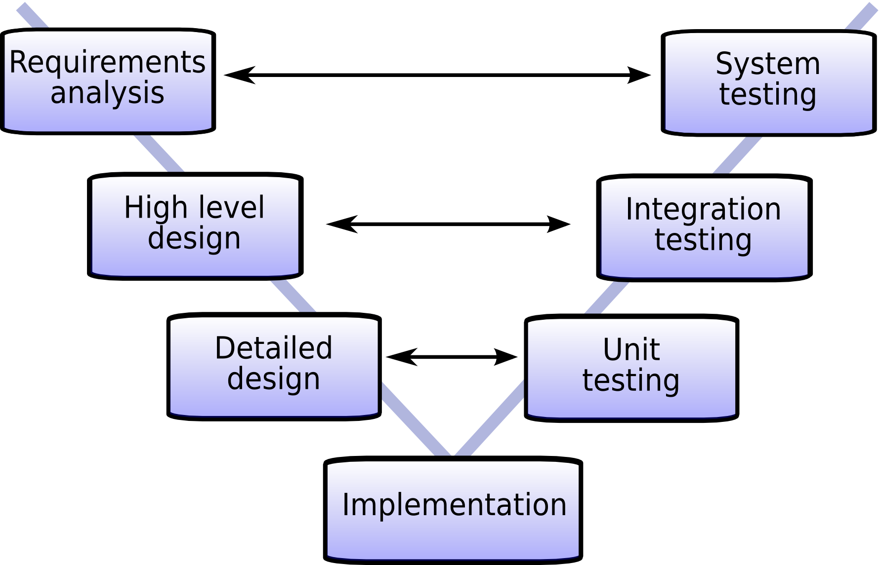 V model from structured systems design theory